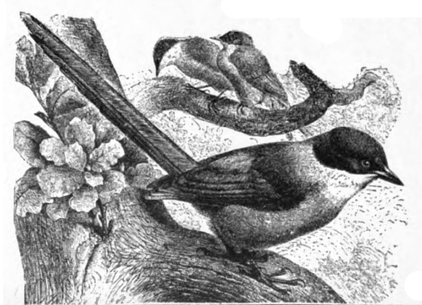 Spanish Jay (Cyanopica cooki)